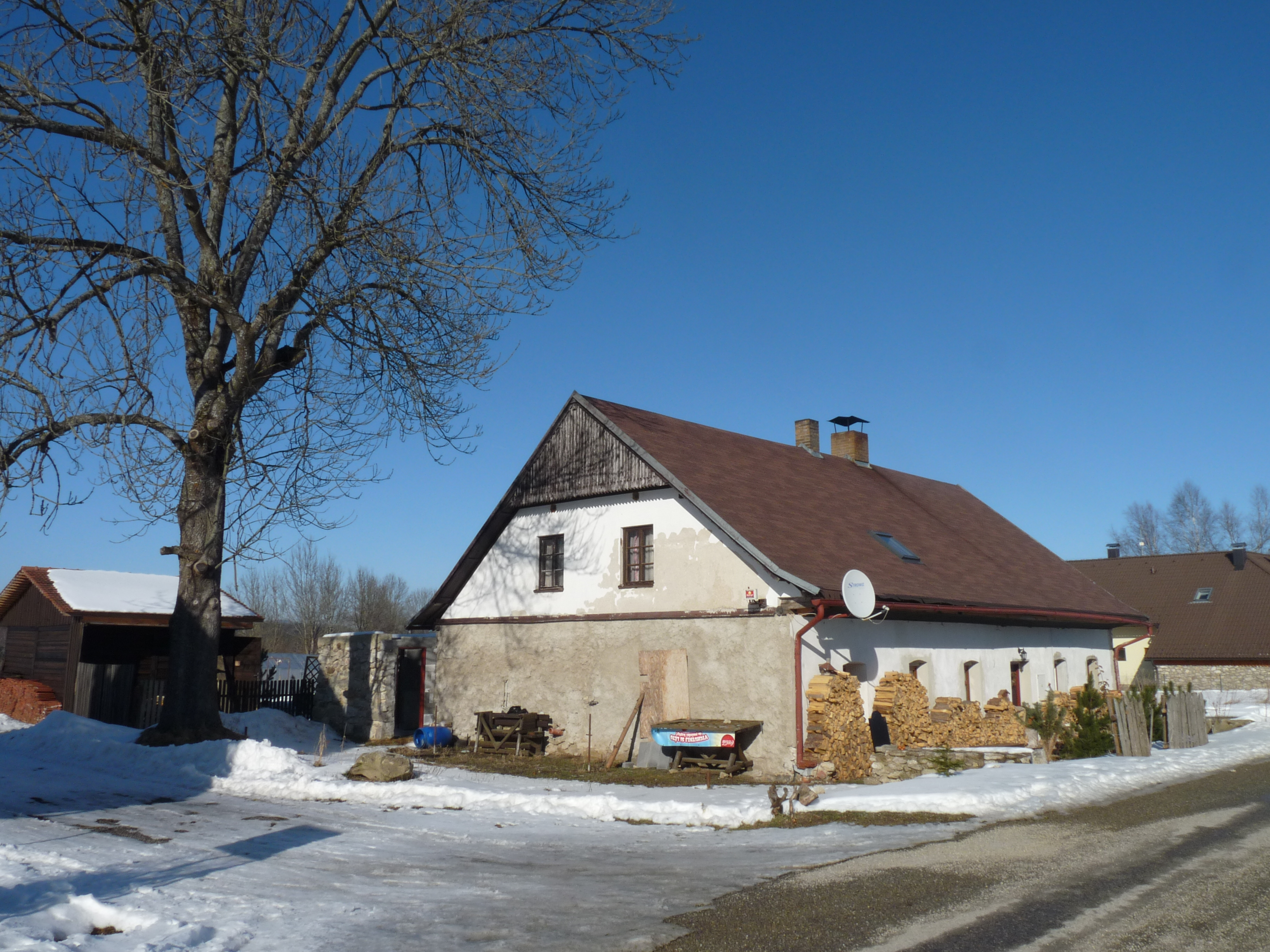 House No 20 in the village of Láz, south-west of the municipality of Nová Pec, Prachatice District, South Bohemian Region, Czech Republic.